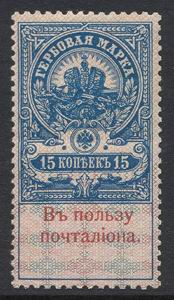 Stamp of Russia for special delivery of court correspondence and documents, 1909. Red overprint "In favour of mail carrier" on a revenue stamp, 15 kopecks.